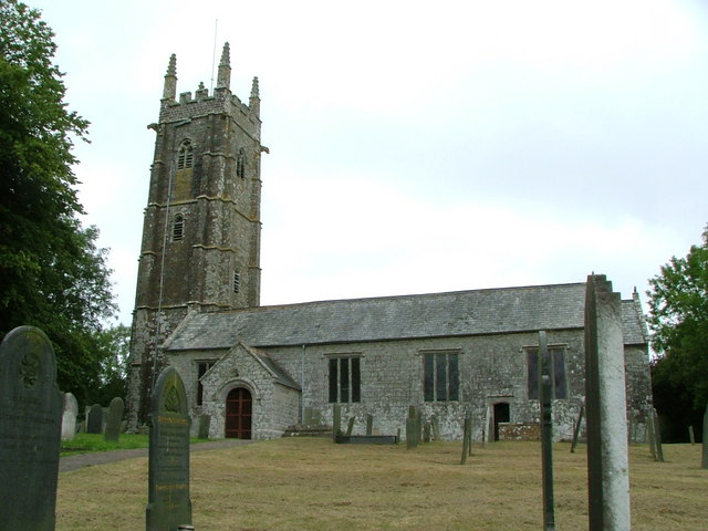 Alwington Parish Church. Dedicated to St Andrew,this is mainly 15c with the porch rebuilt in the 17c